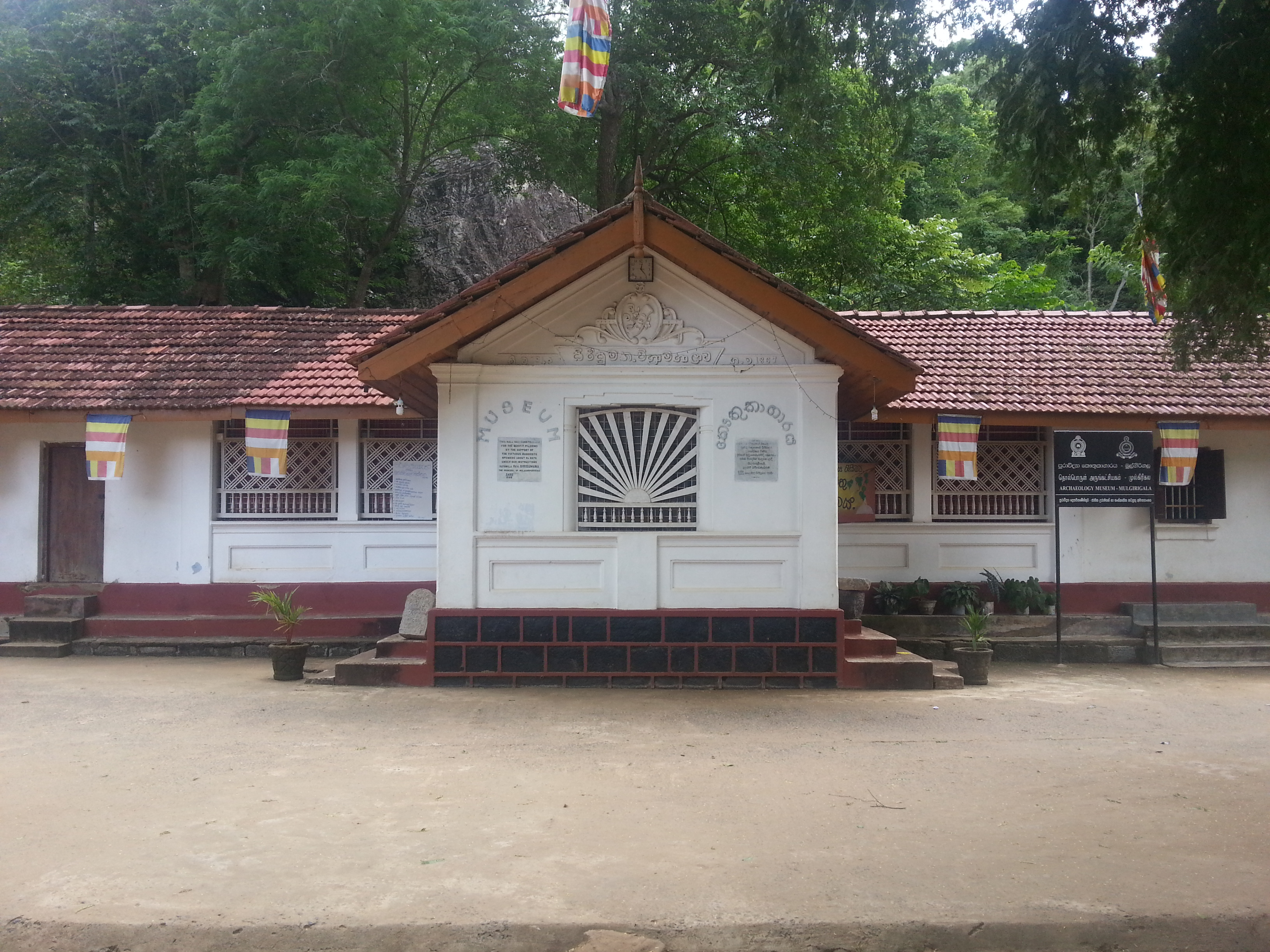 Mulkirigala Museum at Mulkirigala vihara